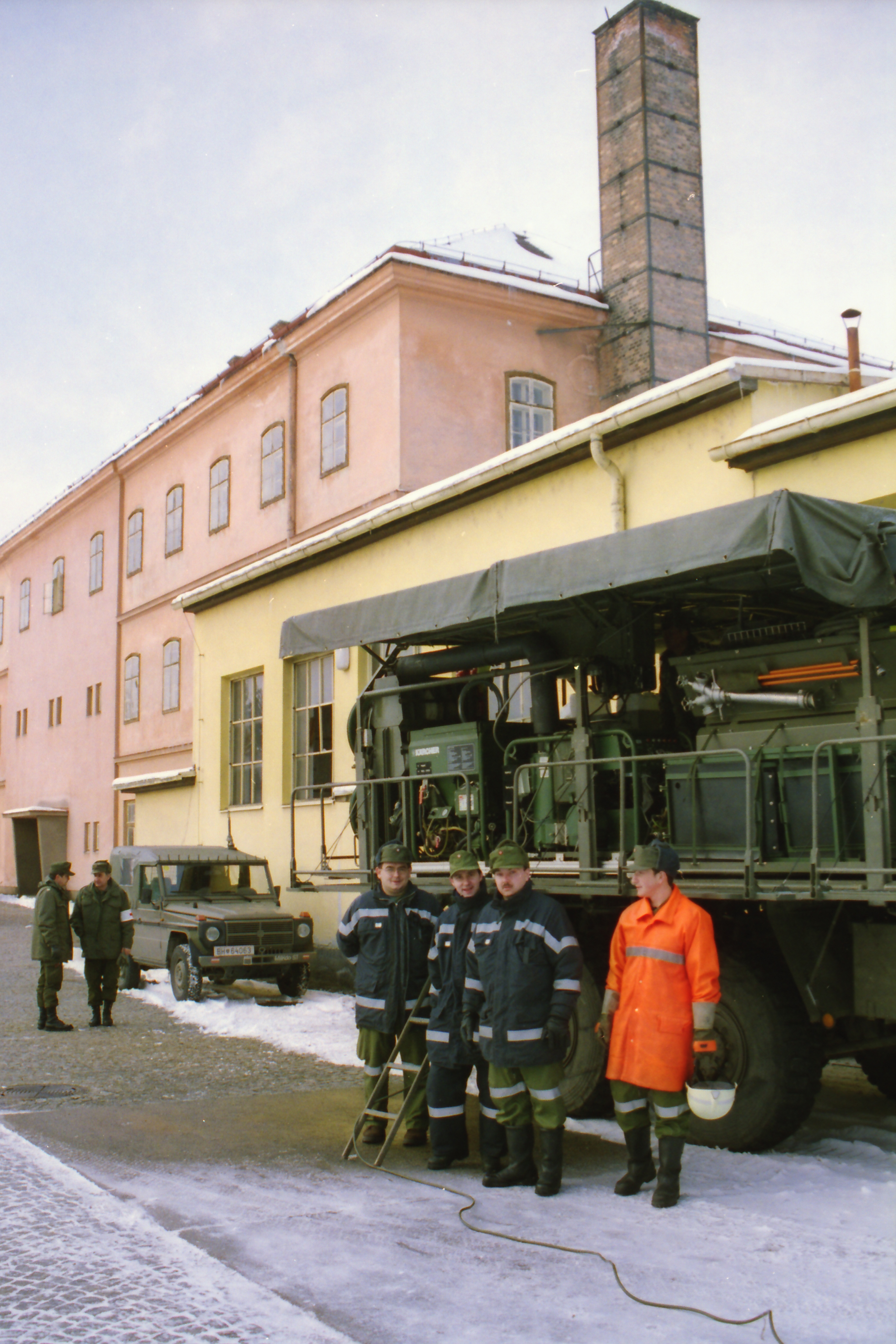 Tabakfabrik Fürstenfeld